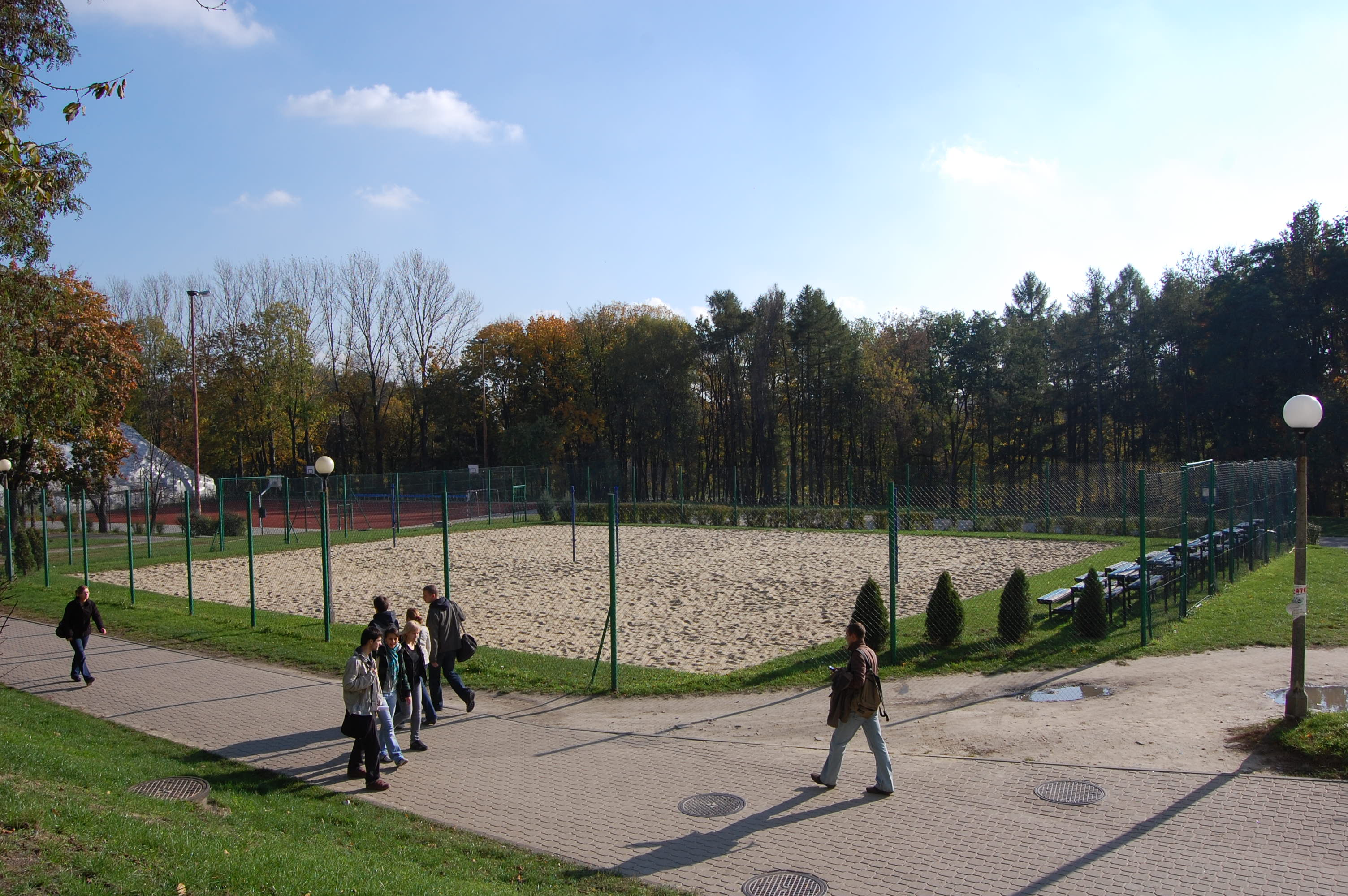 UMCS, beach volleyball court.